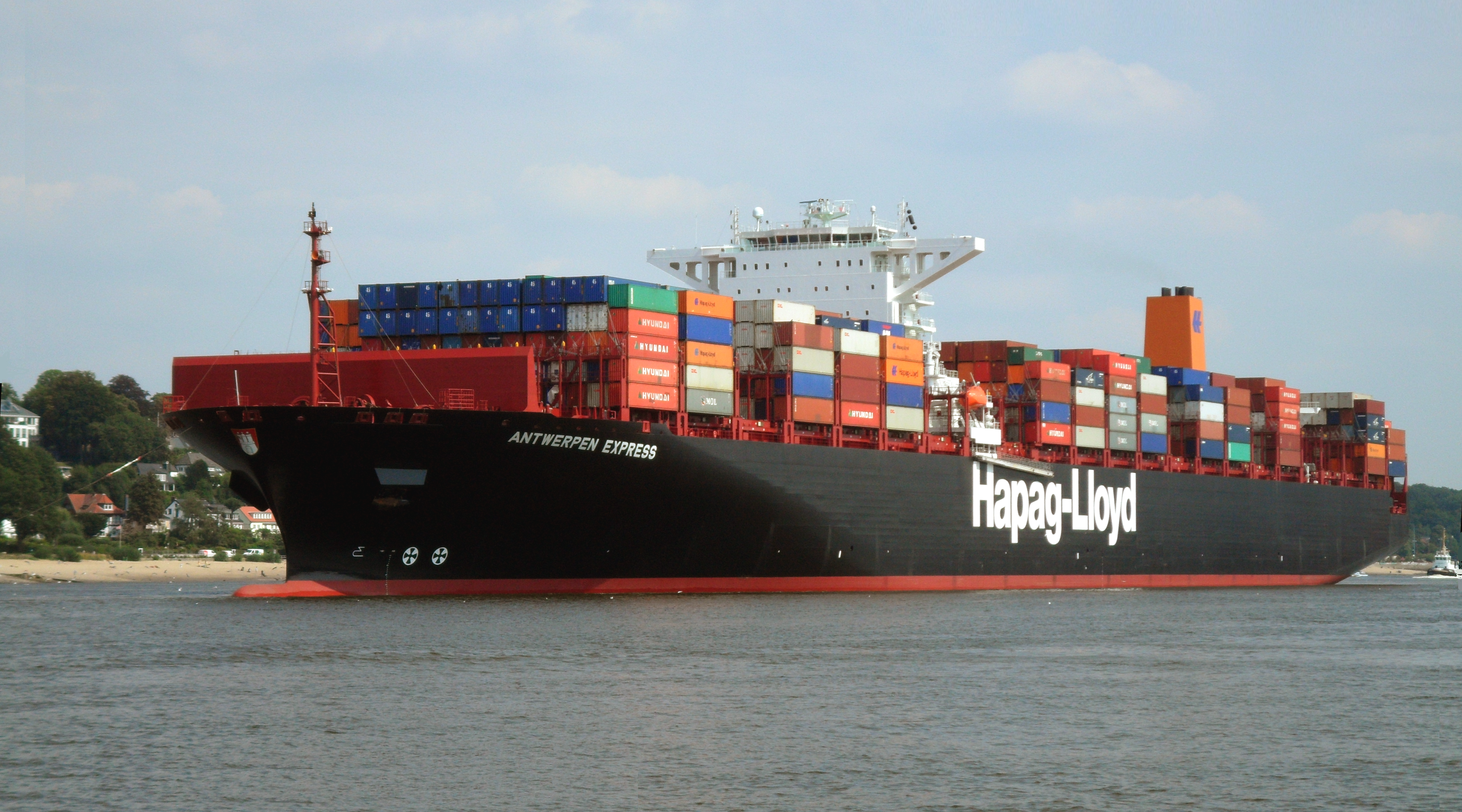 Hapag-Lloyd container ship Antwerpen Express, on the Elbe, outbound Hamburg in August 2013